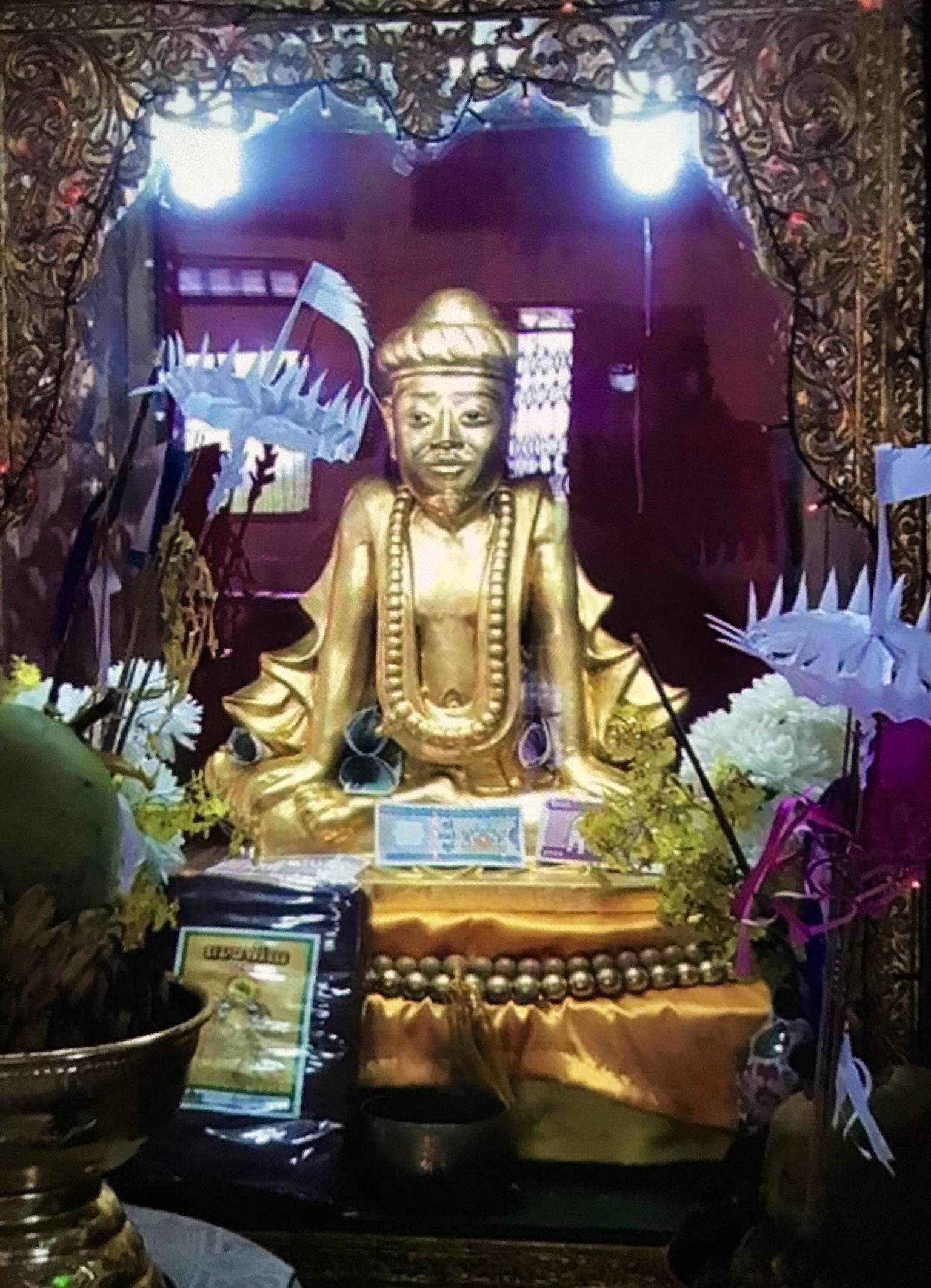 A weizza or weikza is a semi-immortal supernatural figure in Buddhism in Burma